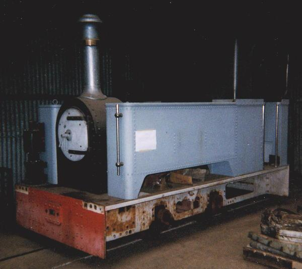 Kerr Stuart Sirdar class locomotive Diana under repair at Alan Keef Ltd. 1999 Author: Dan Crow